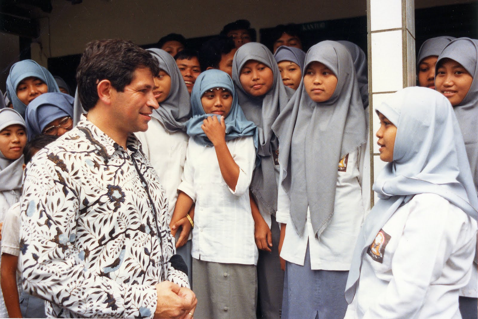 U.S. Ambassador to Indonesia Paul Wolfowitz, wearing local Indonesian traditional Batik Shirt, during a visit to local Indonesian School at Bekasi, West Java in January 1987.